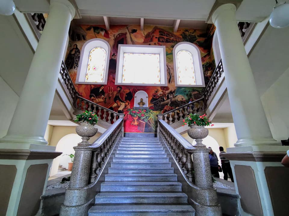 mural inside the city hall of Córdoba